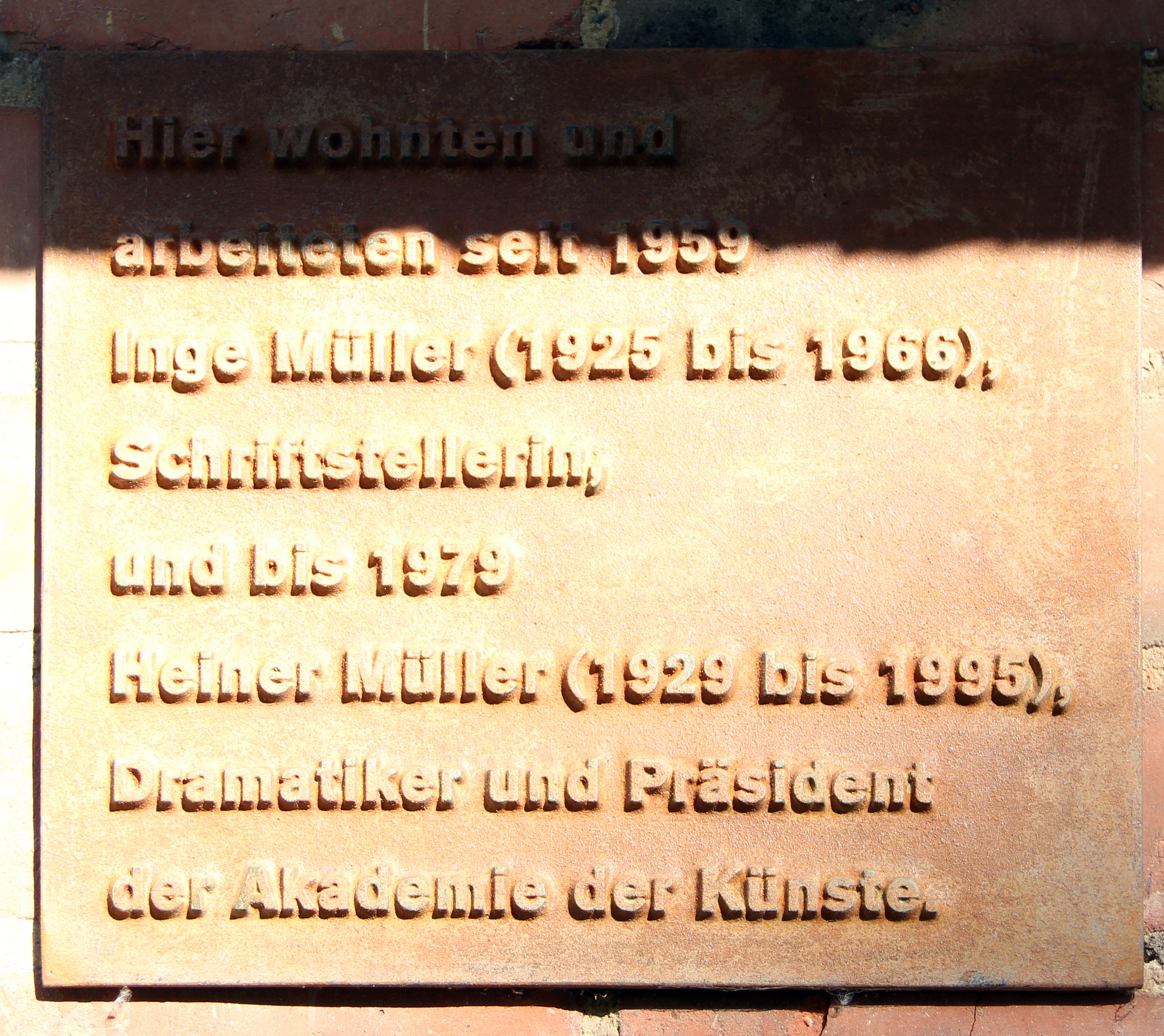 Memorial plaque, Heiner Müller, Kissingenplatz 12, Berlin-Pankow, Germany